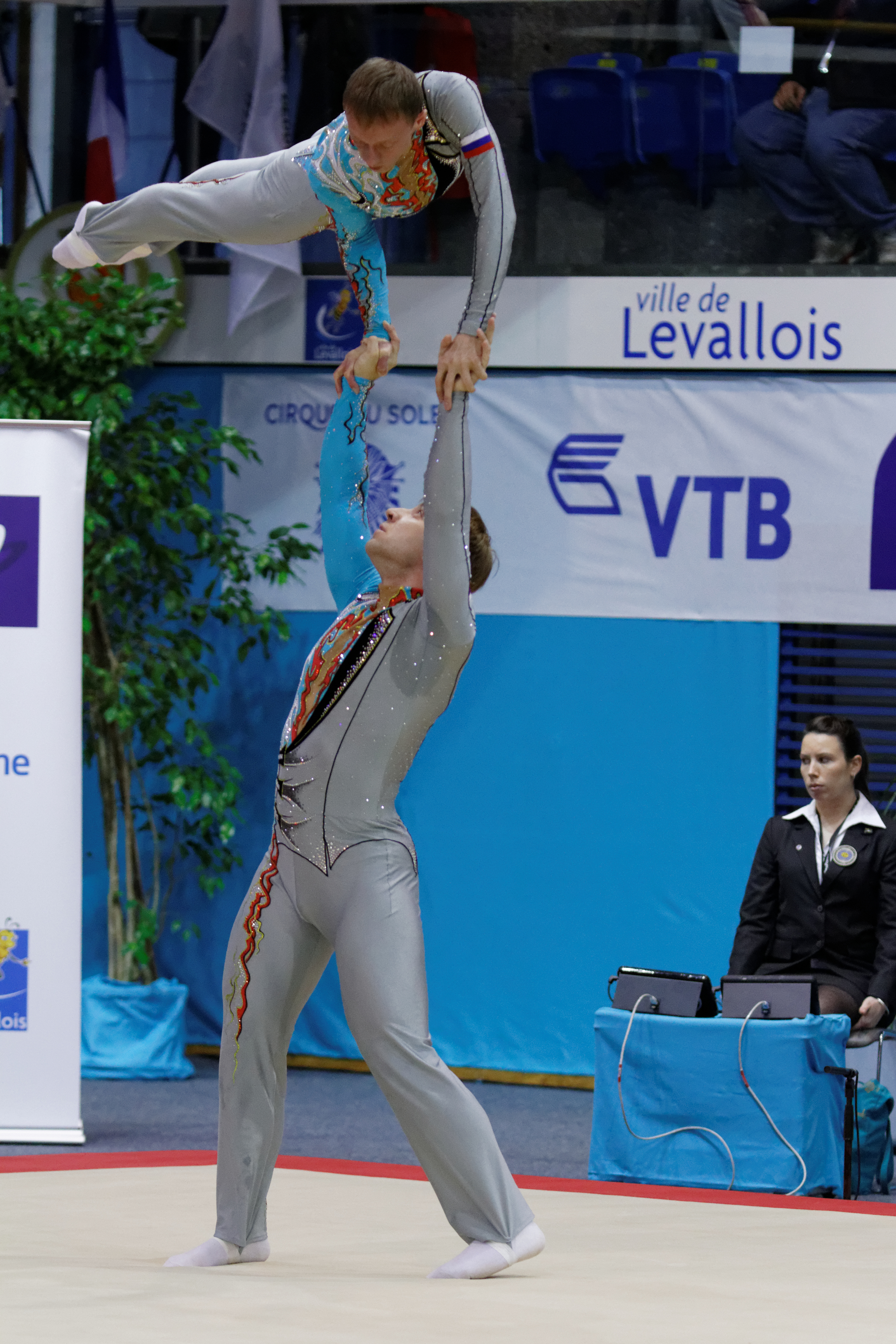 2014 Acrobatic Gymnastics World Championships, 10th-12 July, Levallois-Perret, France. Qualifications: men's pair. Russia.